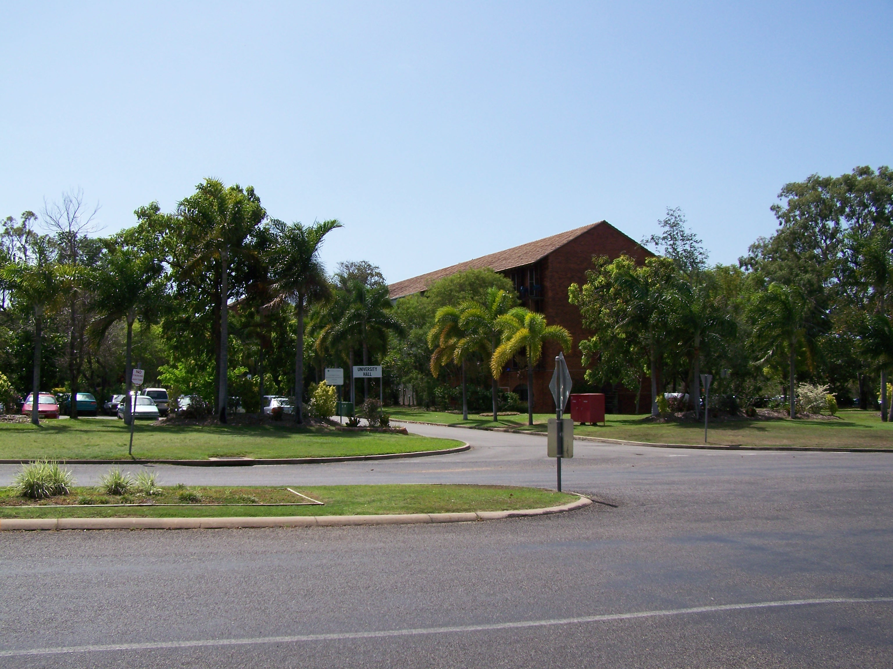 View of the JCU University Hall.